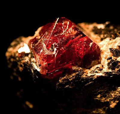 Zircon Locality: Harchu (Harchoo), Astor valley (Astore valley), Astor District (Astore District), Northern Areas, Pakistan (Locality at ) Size: miniature, 3.2 x 3.1 x 1.8 cm ZIRCON Rarely have crystals of zircon, from any worldwide locality, been as gemmy as these from a new find in Pakistan. This specimen features an equant, glassy and gemmy, wine red colored crystal, measuring 1 cm and perched aesthetically on a matrix of biotite mica. Mesmerizing little gem!